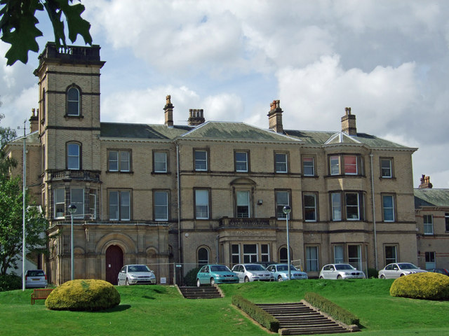 Tranby Croft, Anlaby, East Riding of Yorkshire, England.Tranby Croft, now home to Hull Collegiate School, was the scene of the famous 1890 Royal Baccarat Scandal Royal_Baccarat_Scandal involving Edward Prince of Wales. It is a listed building - see Historic England List detailed record